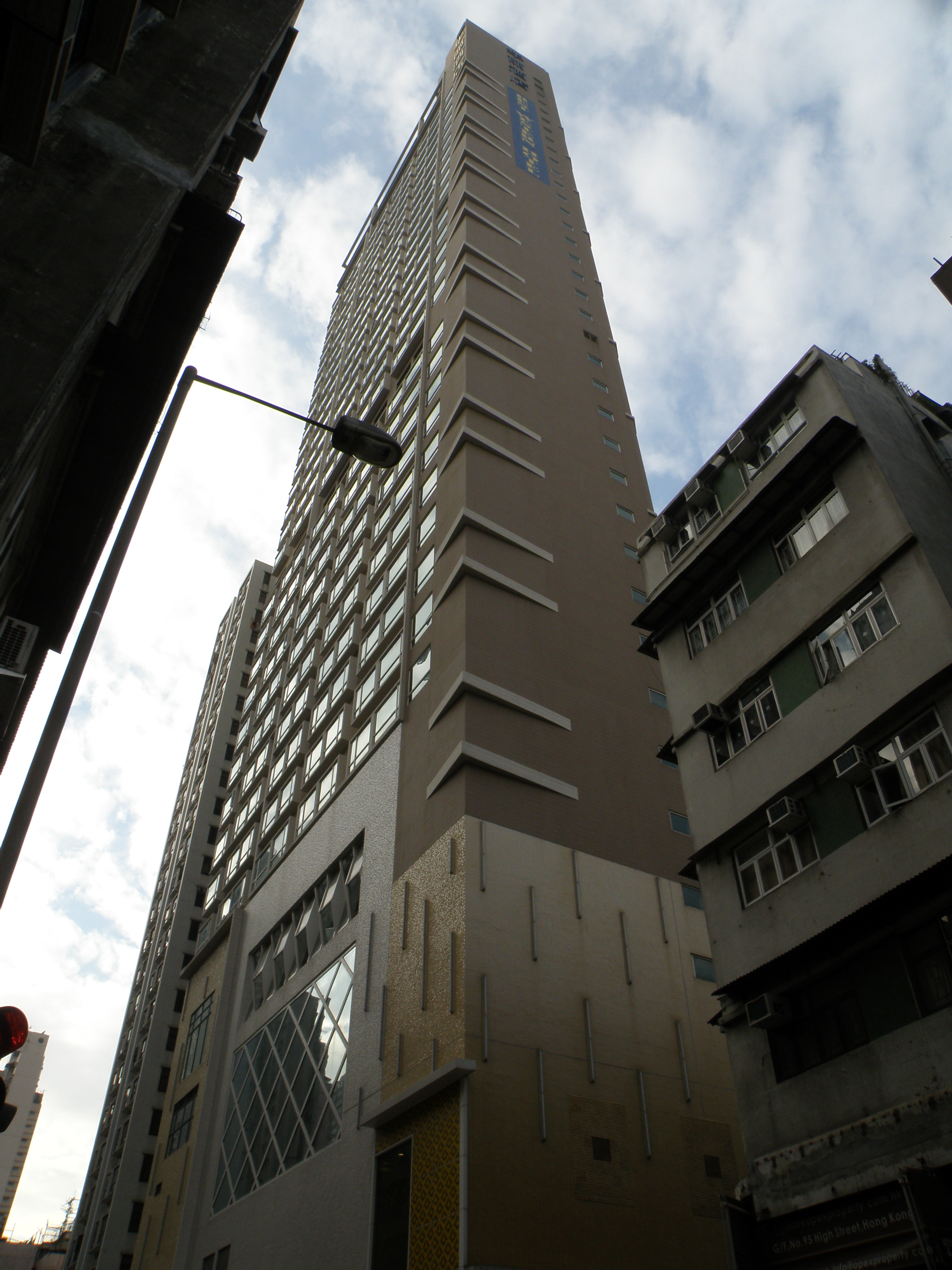 Best Western Hotel in Sai Ying Pun, Hong Kong.